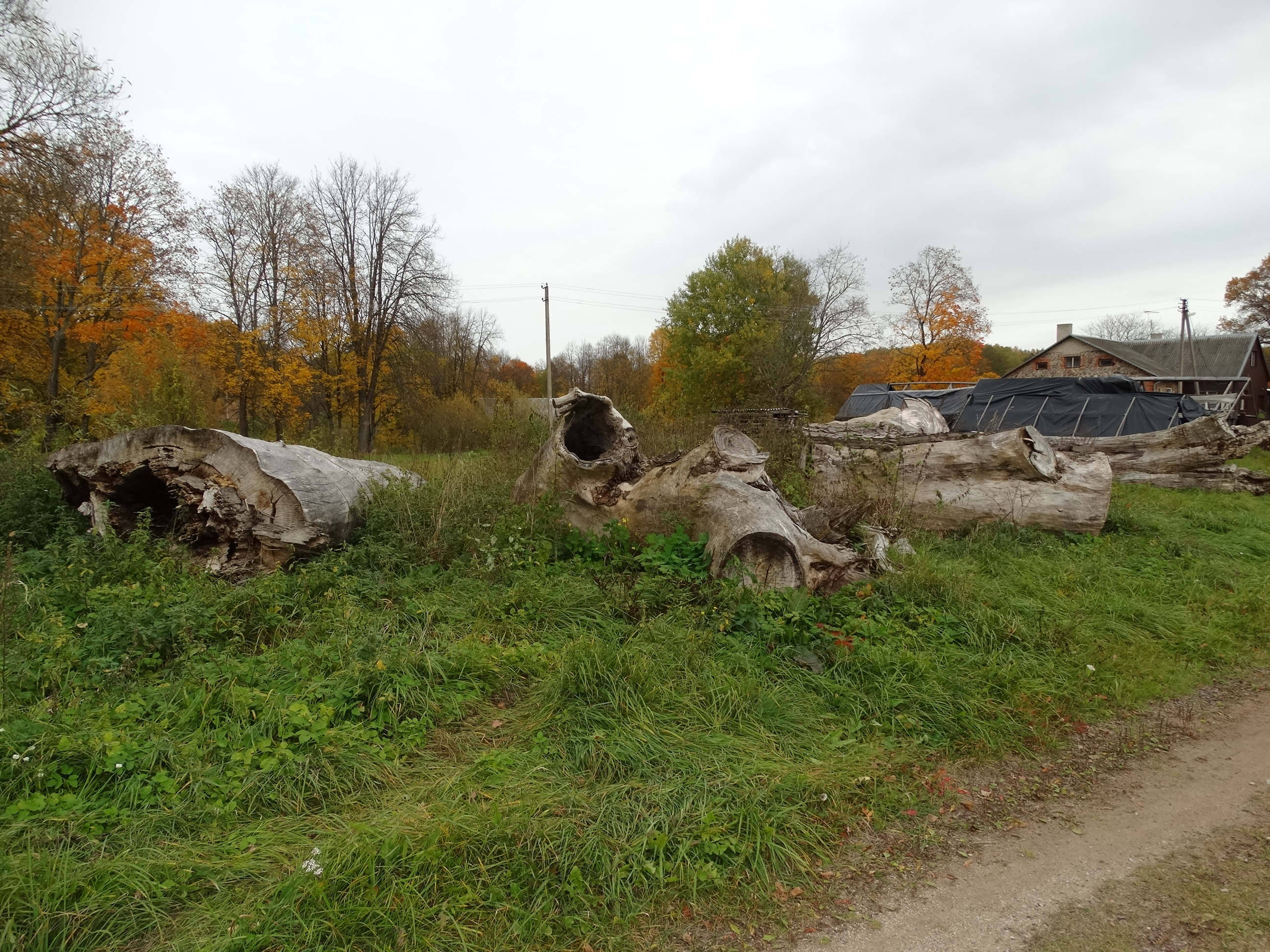 Remains of white poplar, Prapuntai, Lazdijai District, Lithuania